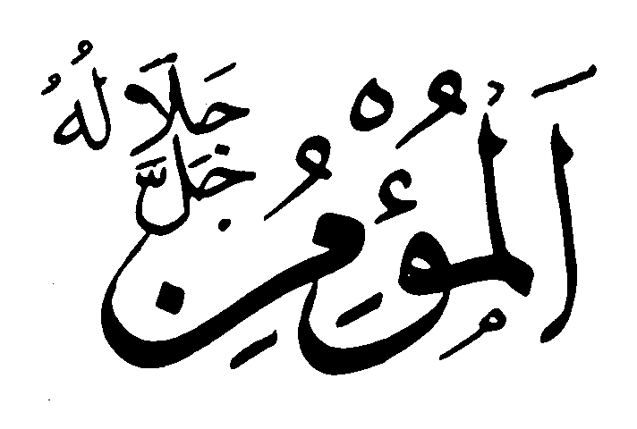 7 Name of Allah